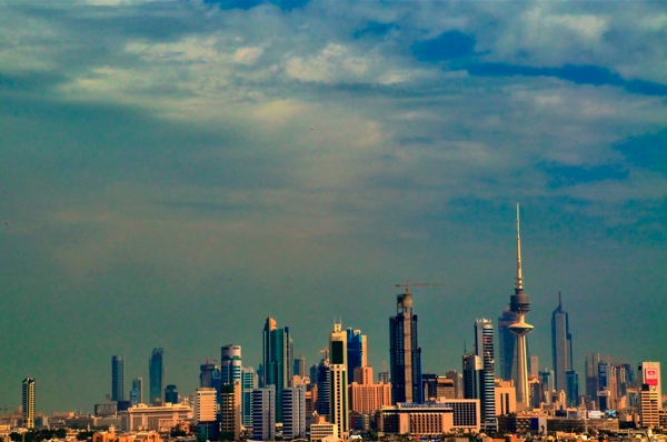 HDR Another angle to Kuwait City